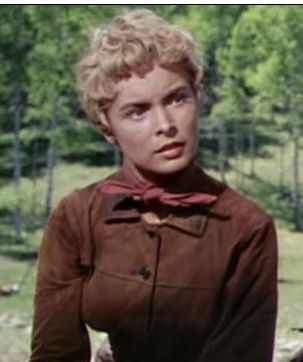 Screenshot of Janet Leigh from the film The Naked Spur (1953).